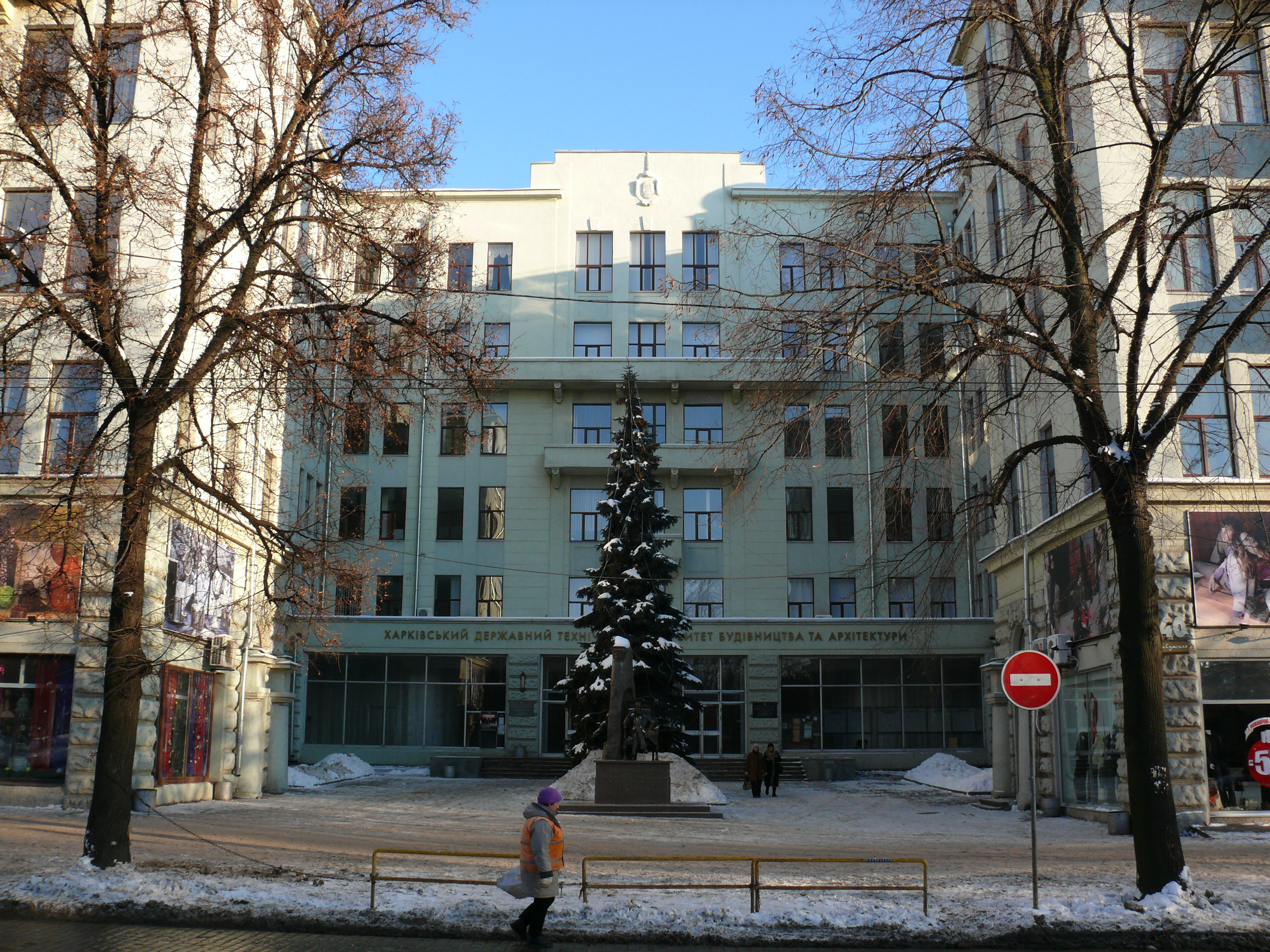 Kharkov. Sumskaya street, 40. Kh.I.C.I.